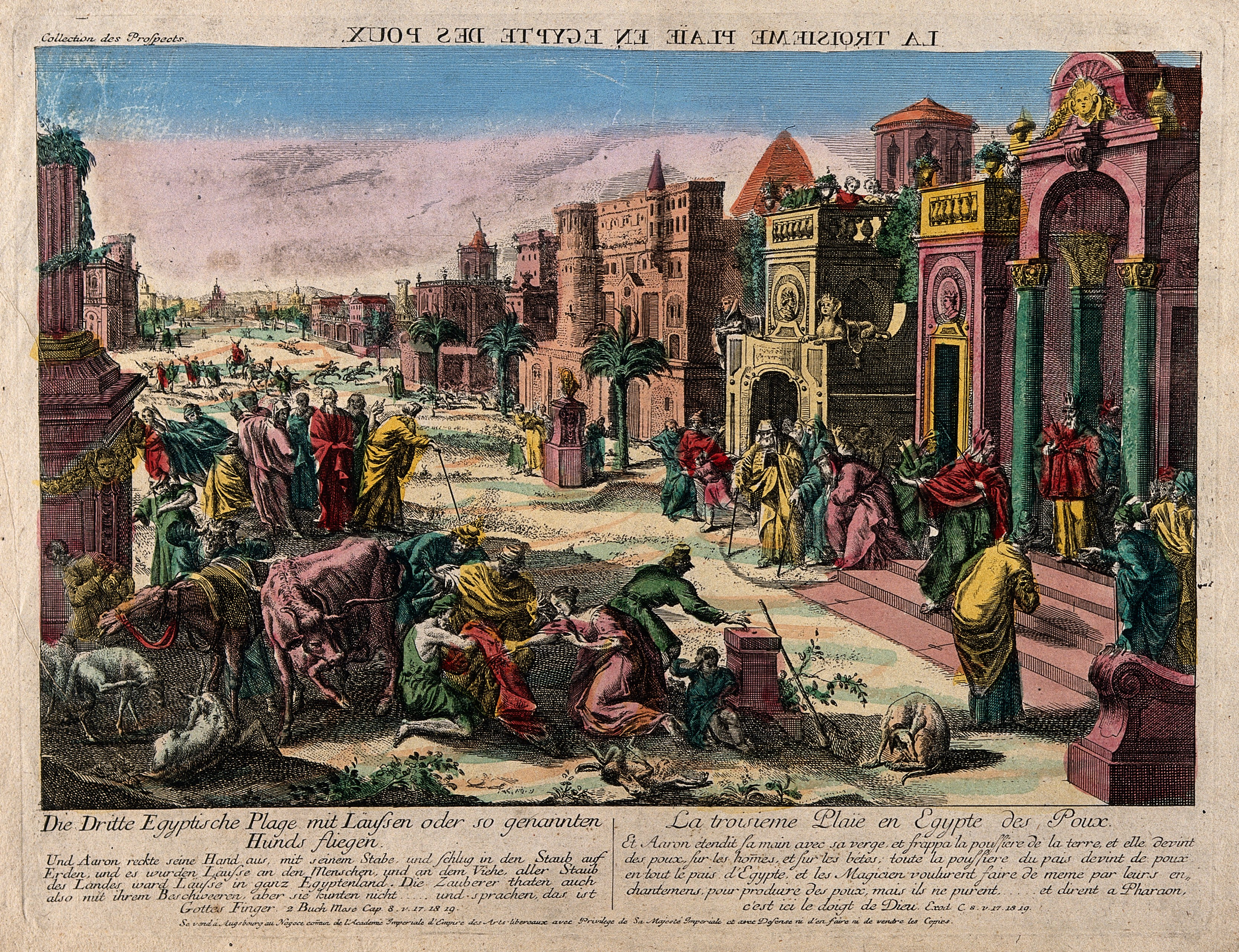 The plague of lice. Coloured etching. Iconographic Collections